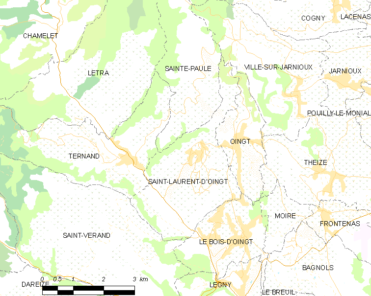 Map of French municipality Saint-Laurent-d'Oingt